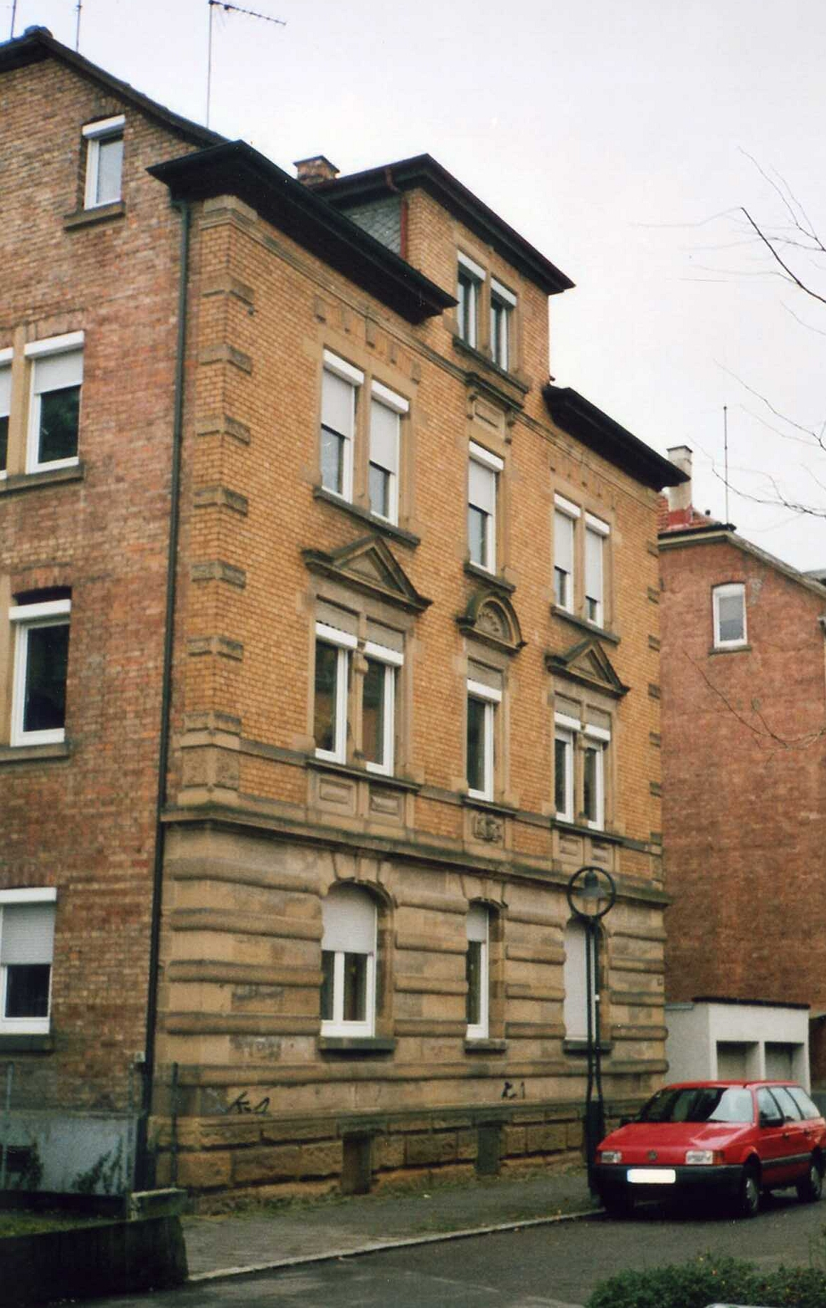 Heilbronn